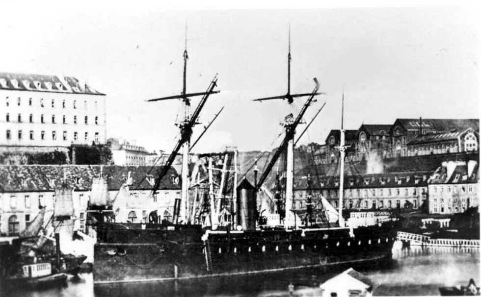 Gauloise (1865) - Broadside ironclad Provence class 5,700 - 6,122 tons launches 1865 - stricken 1883